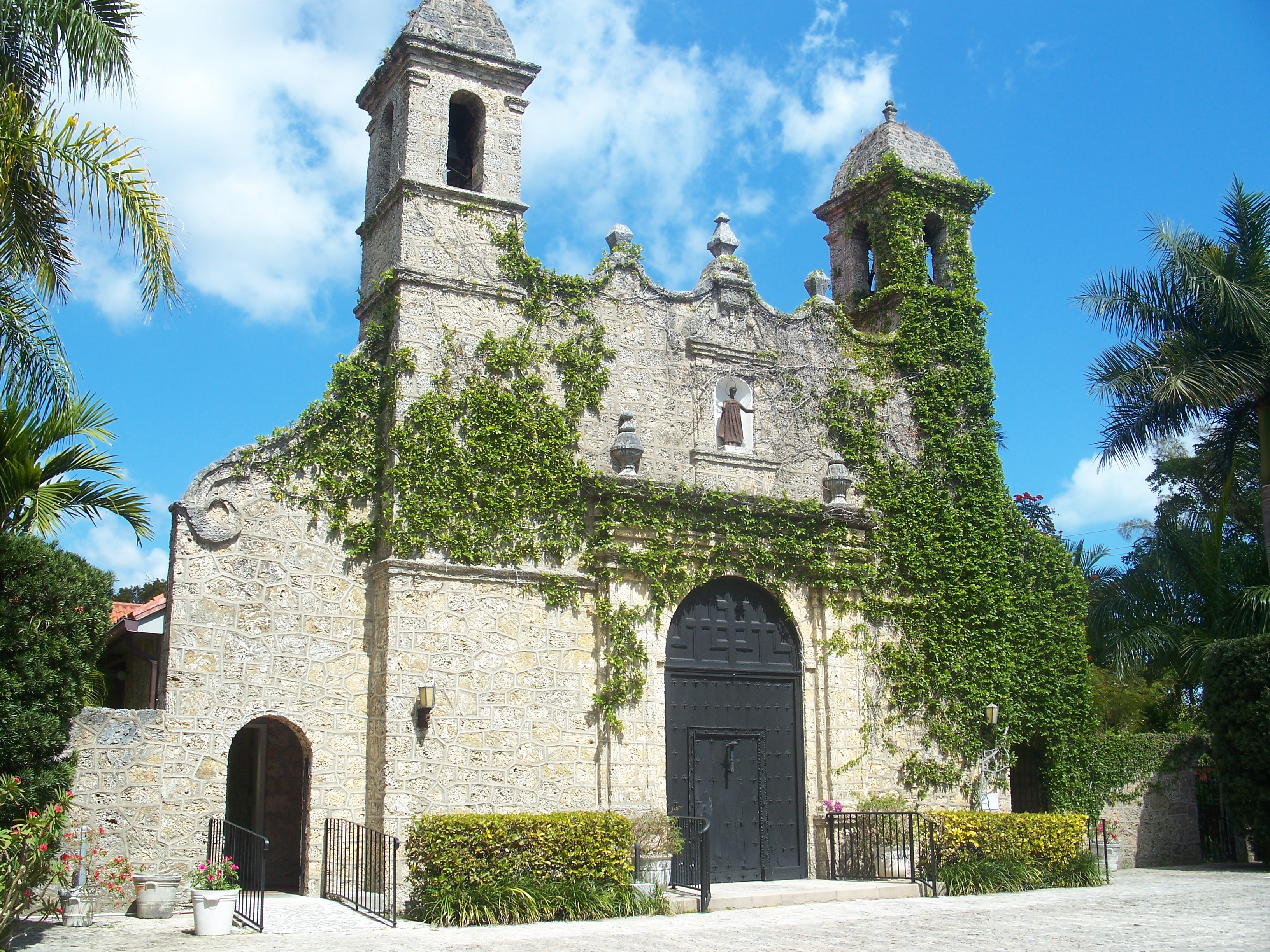 Coconut Grove, Florida: Plymouth Congregational Church (Miami)